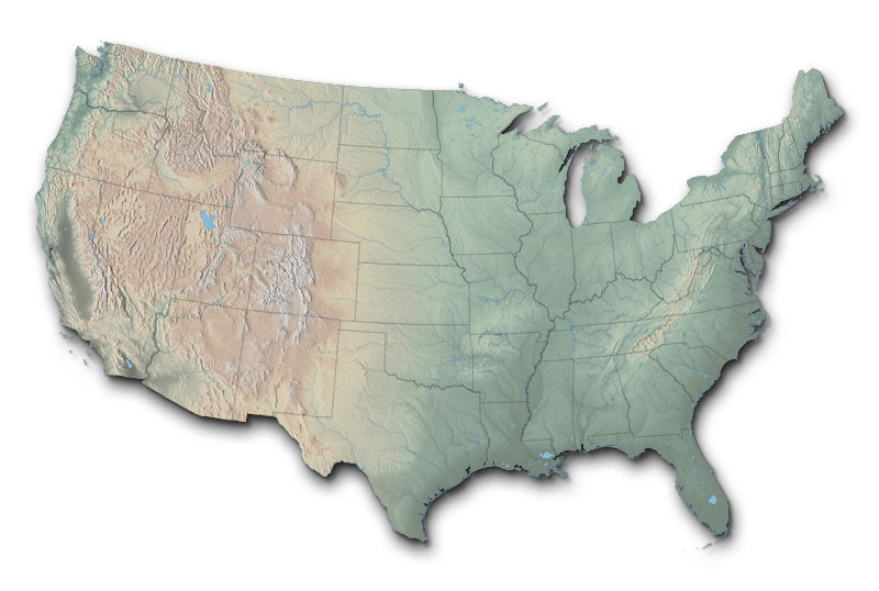 "Floating (plan oblique) physical base with terrain, rivers, boundaries, and drop shadow."